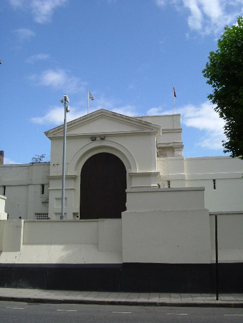 Do Not Pass Go! HMP Pentonville: One of Her Majesty's finest hostelries located conveniently on the Caledonian Rd